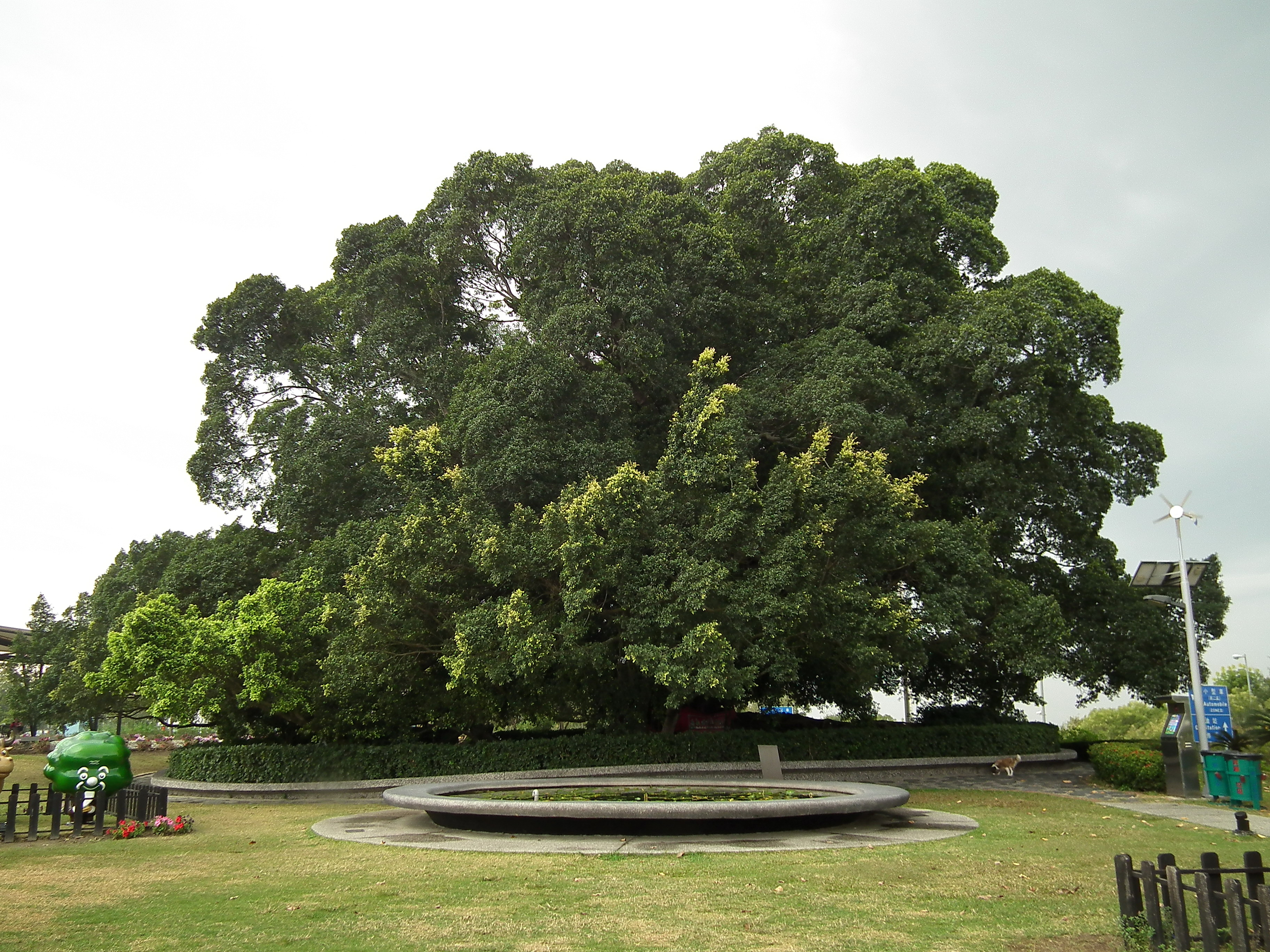 Old Banyan Tree at Dongshan Service Area 東山服務區老榕樹